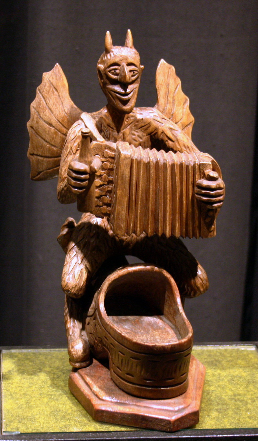 Devil representation in the Žmuidzinavičius Museum in Kaunas.